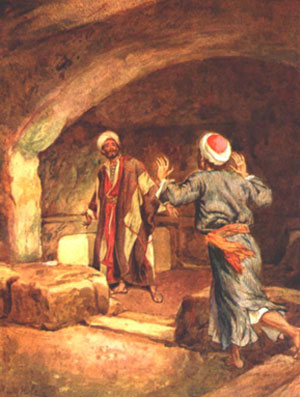 William Hole's interpretation of the Beloved Disciple joining Peter in the tomb. From book: The Life of Jesus of Nazareth. Eighty Pictures.